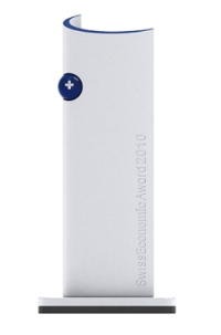 This is the Swiss Economic Award